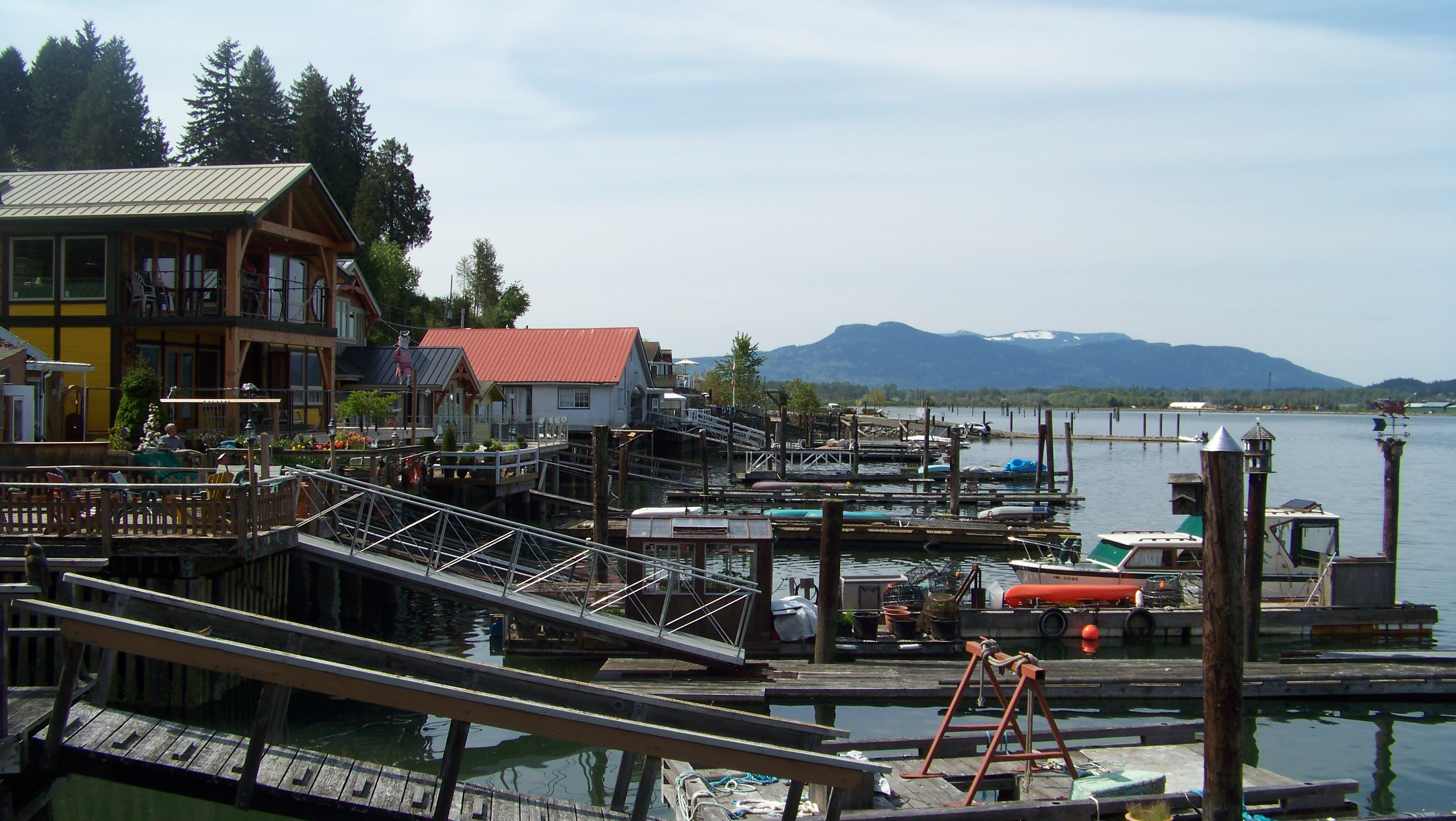 A photo of Cowichan Bay on Vancouver Island, British Columbia, Canada.